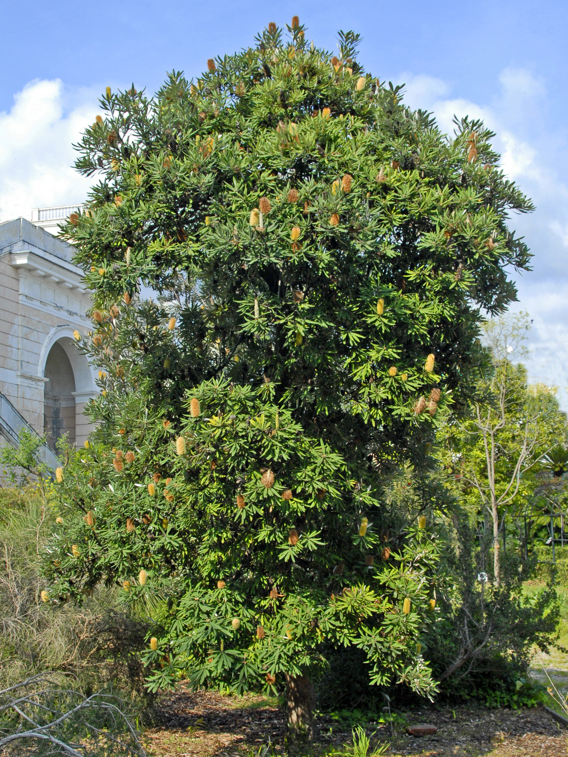 Tree of Banksia serrata at Villa Durazzo-Pallavicini, Genova Pegli